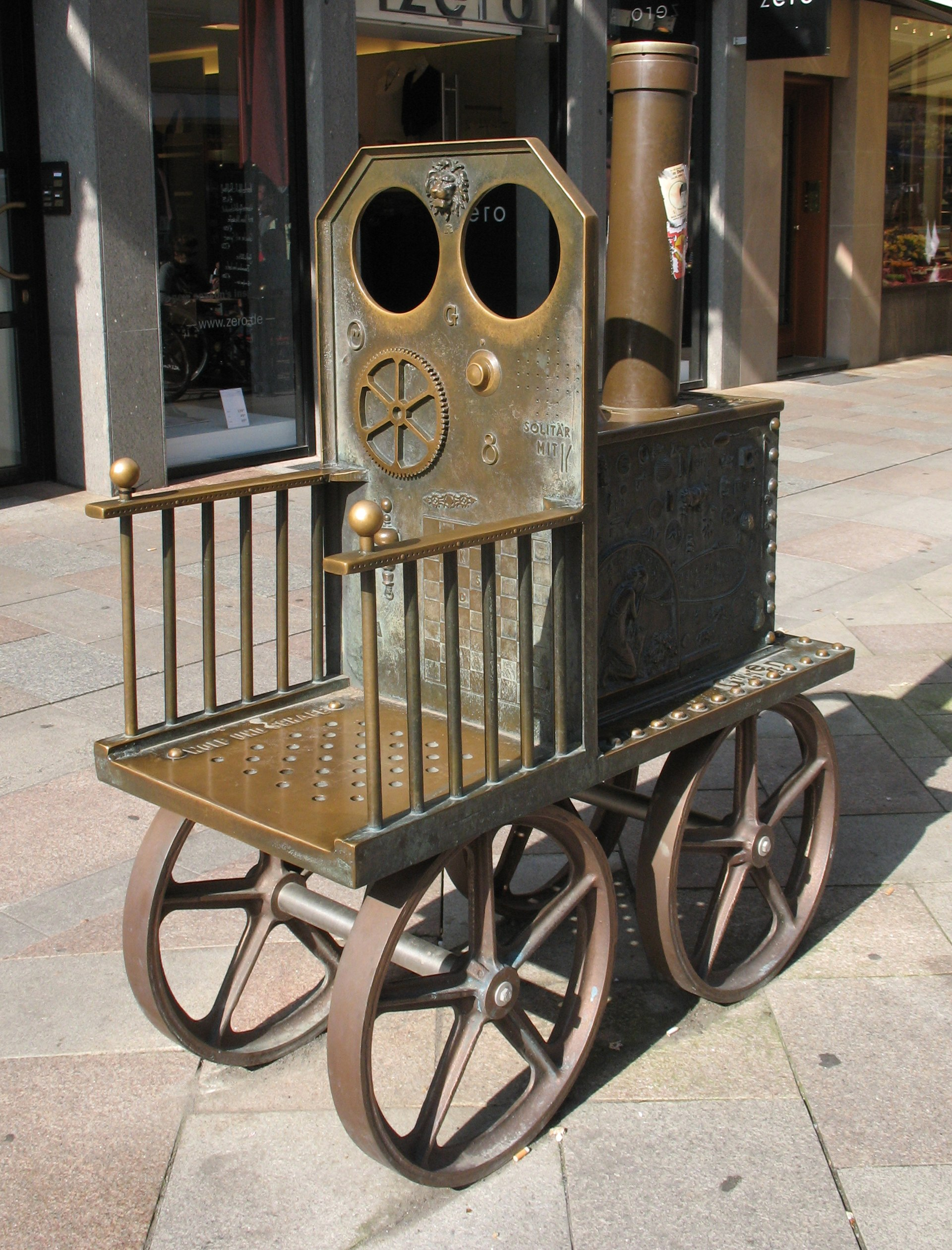 Sculpture by Reinhold Wittig in Göttingen in Lower Saxony, Germany